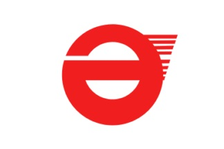 Flag of Yonashiro Okinawa